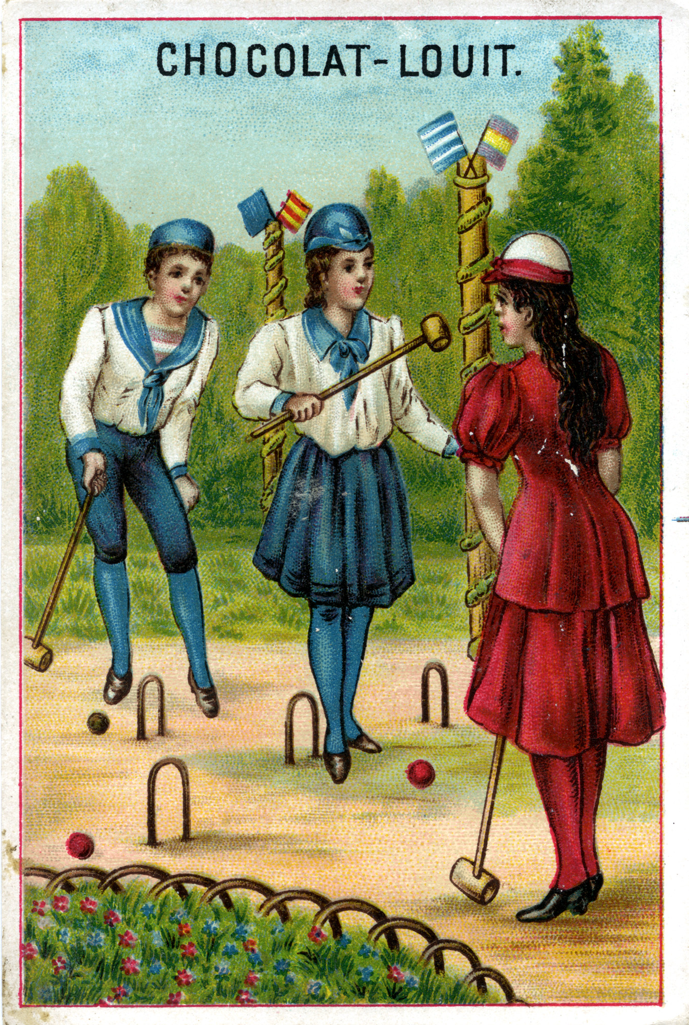 No known copyright restrictions. Please credit UBC Library as the image source. For more information, see Creator: Unknown Date Created: [between 1910 and 1919?] Source: Original Format: University of British Columbia. Library. Rare Books and Special Collections. Arkley Croquet Collection. Permanent URL